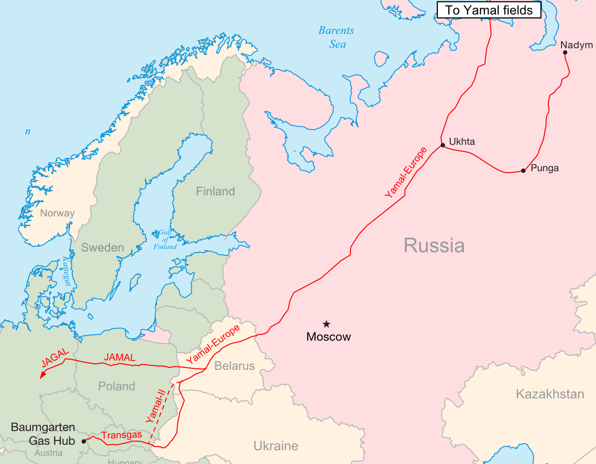 Map of the Yamal-Europe natural gas transportation pipeline